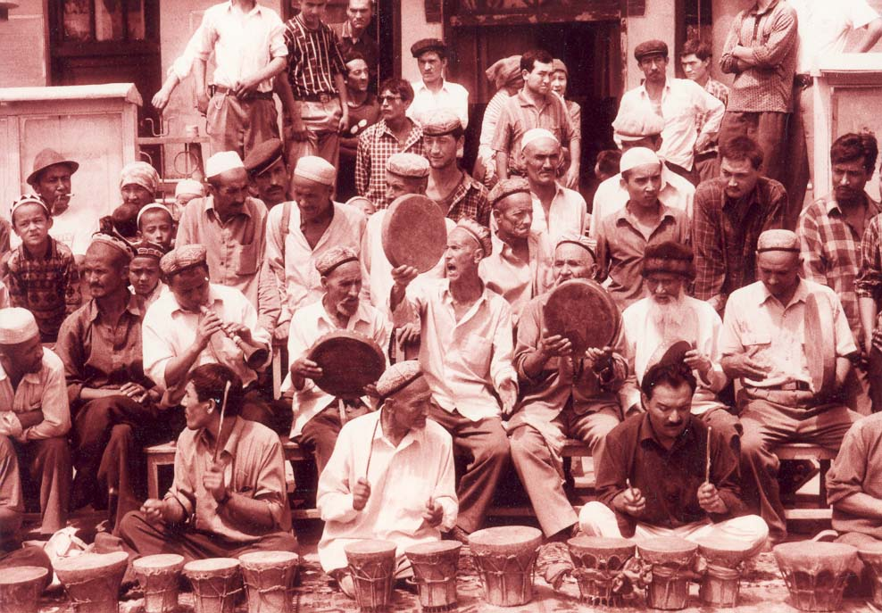 Uyghurs performing Mashrap. Kashgar.